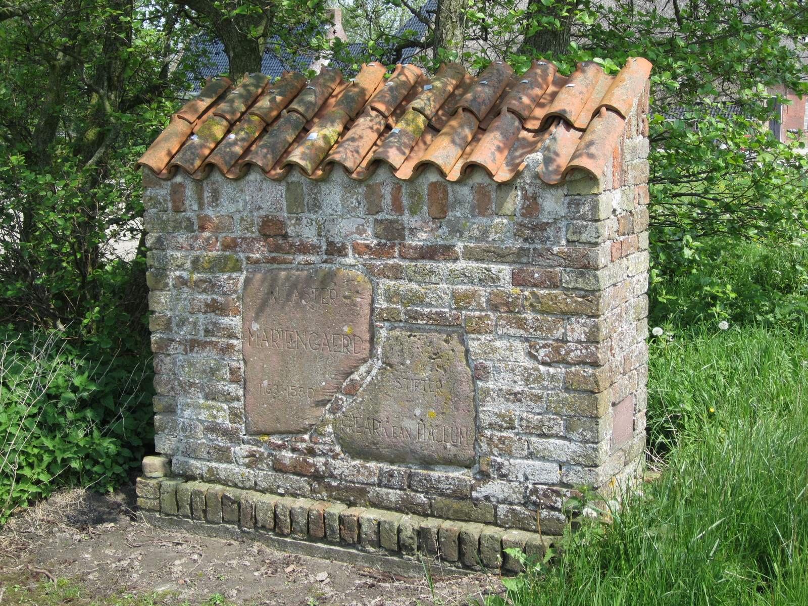 Monument on former monastery grounds (Mariëngaarde). Near village Hallum, south of hamlet Hallumerhoek, county Friesland, The Netherlands.